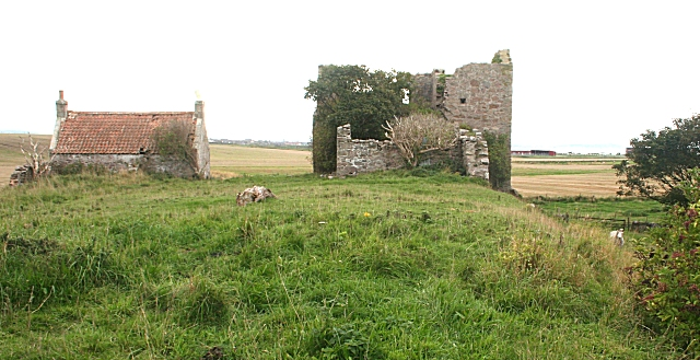 Findochty Castle. The castle ruins seen from the east.